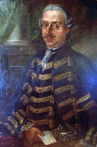 Portrait of the Count Giuseppe Viscovich (1728-1804), the last Venetian capitain of Perasto.